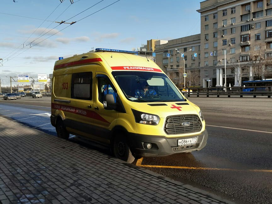 Ford Transit used as ambulance, Moscow